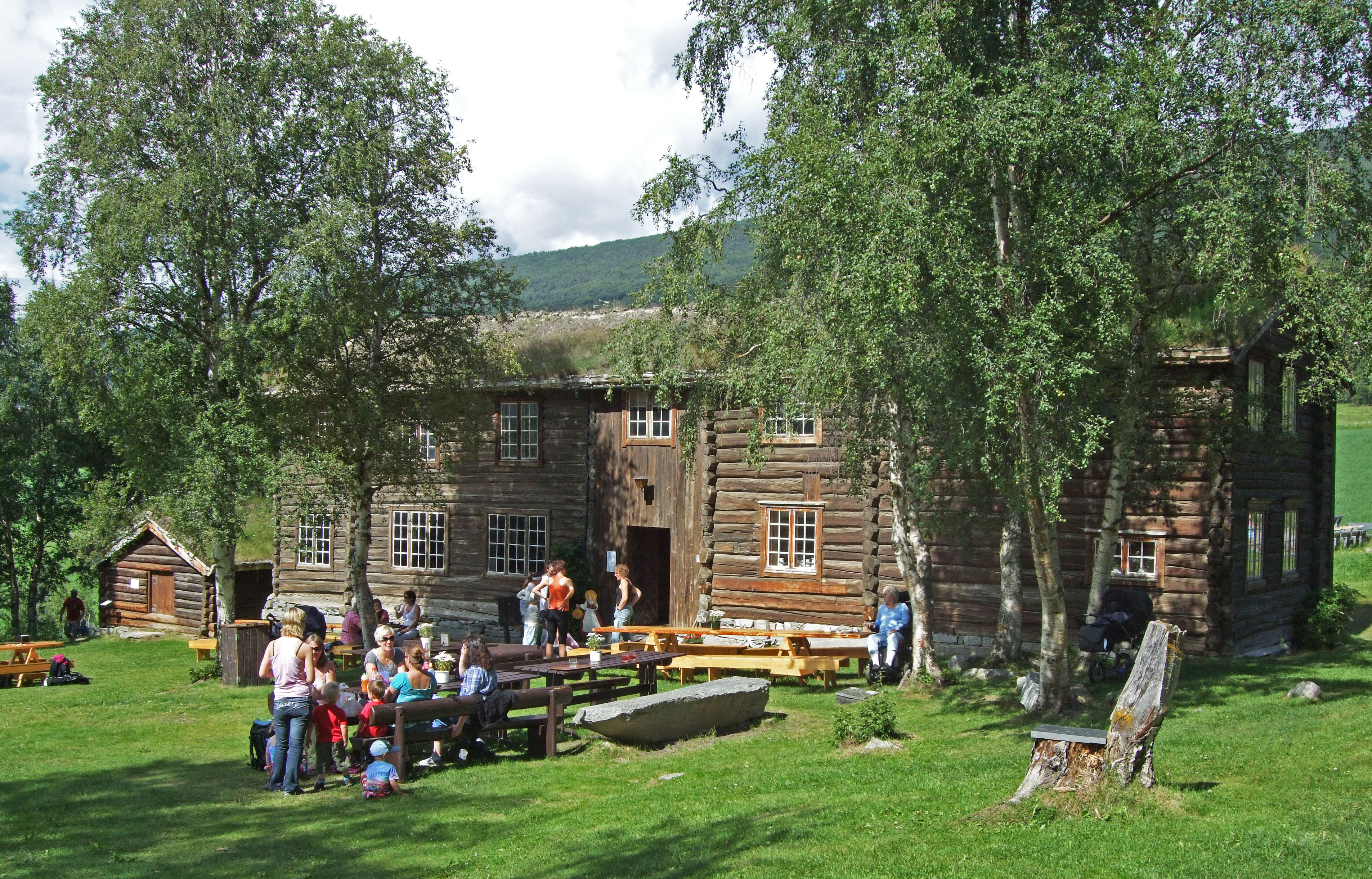 Lesja bygdemuseum